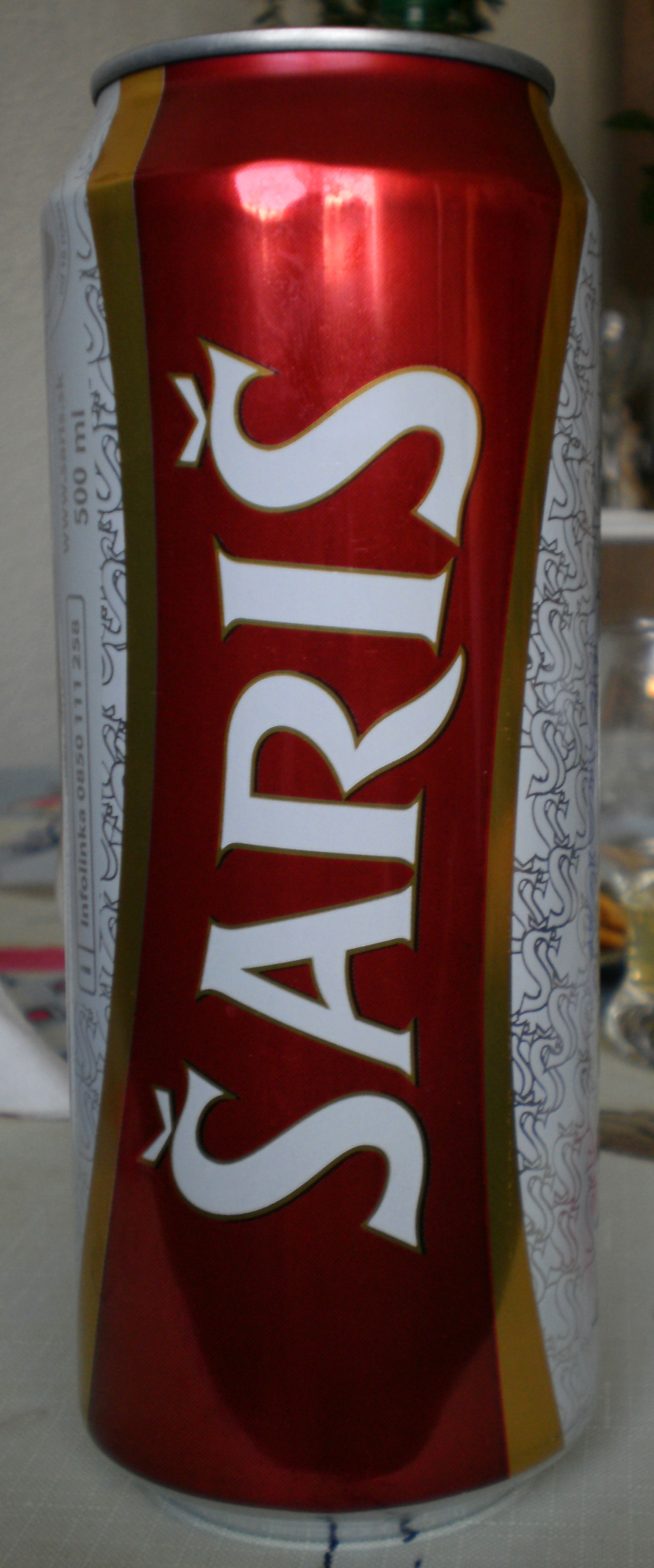 Šariš (beer)